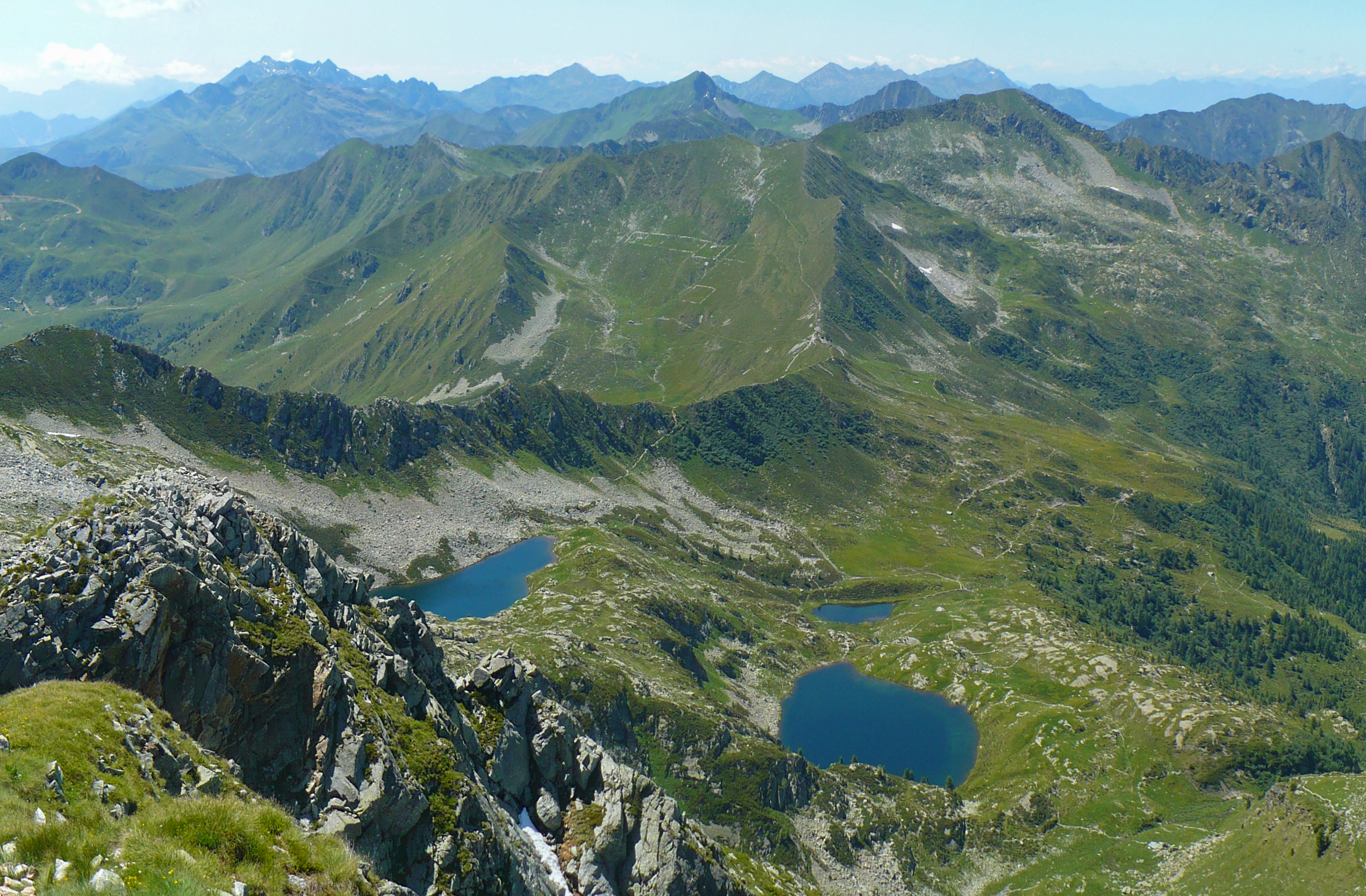 Laghi di Porcile seen from Monte Cadelle summit